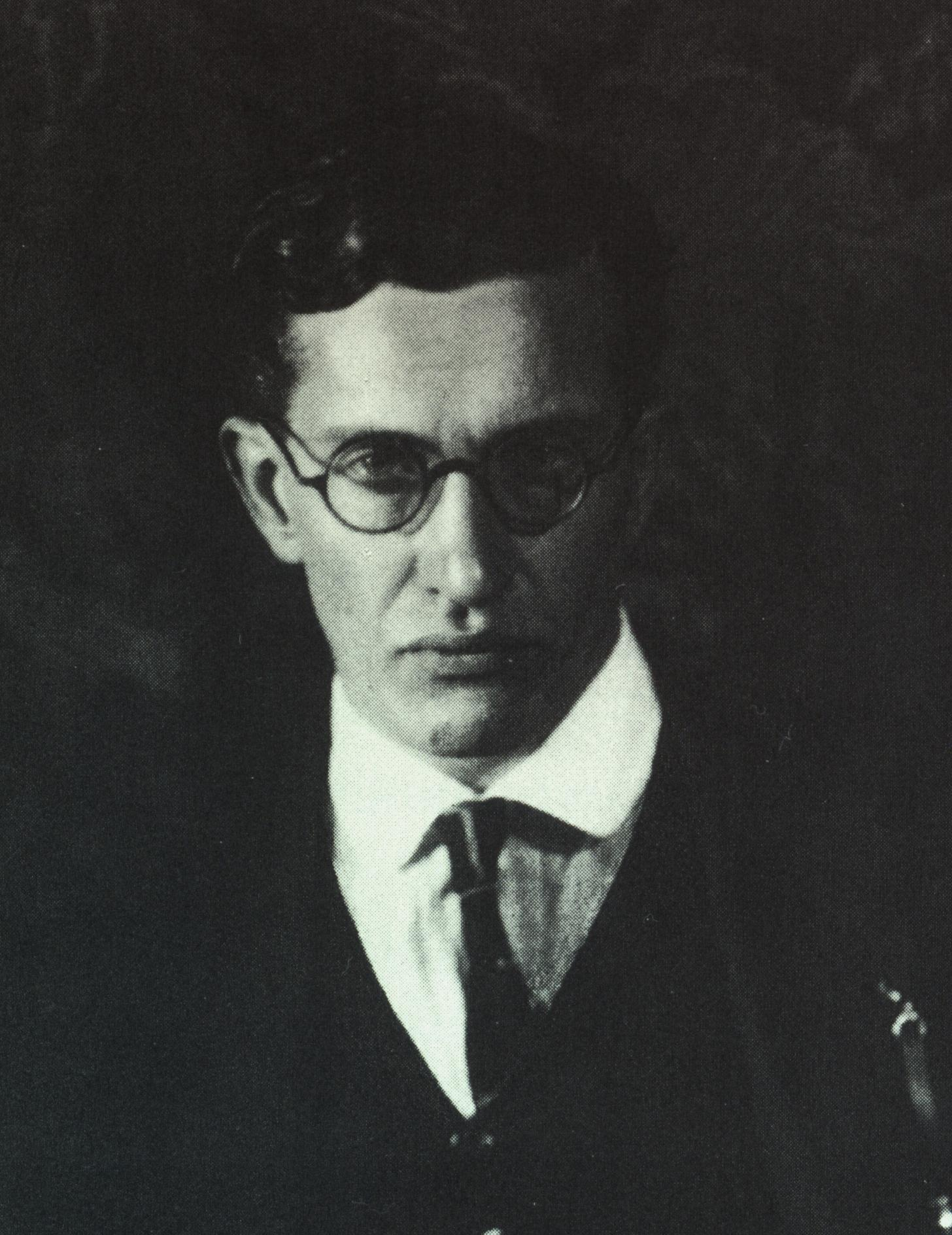 Klemens Brosch, Austrian painter